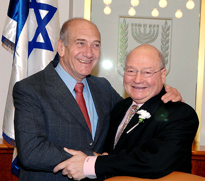 Congressman Gary Ackerman, in his capacity as the Chairman of the Foreign Affairs Subcommittee on the Middle East and South Asia, meeting with Israeli Prime Minister Ehud Olmert at this office in Jerusalem.